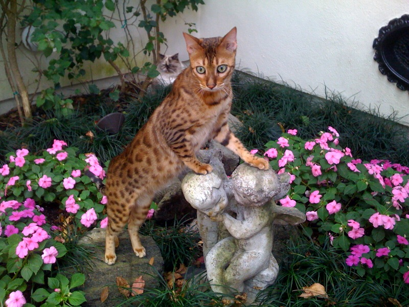 A Bengal Cat Named "Bangie". Here is his youtube video